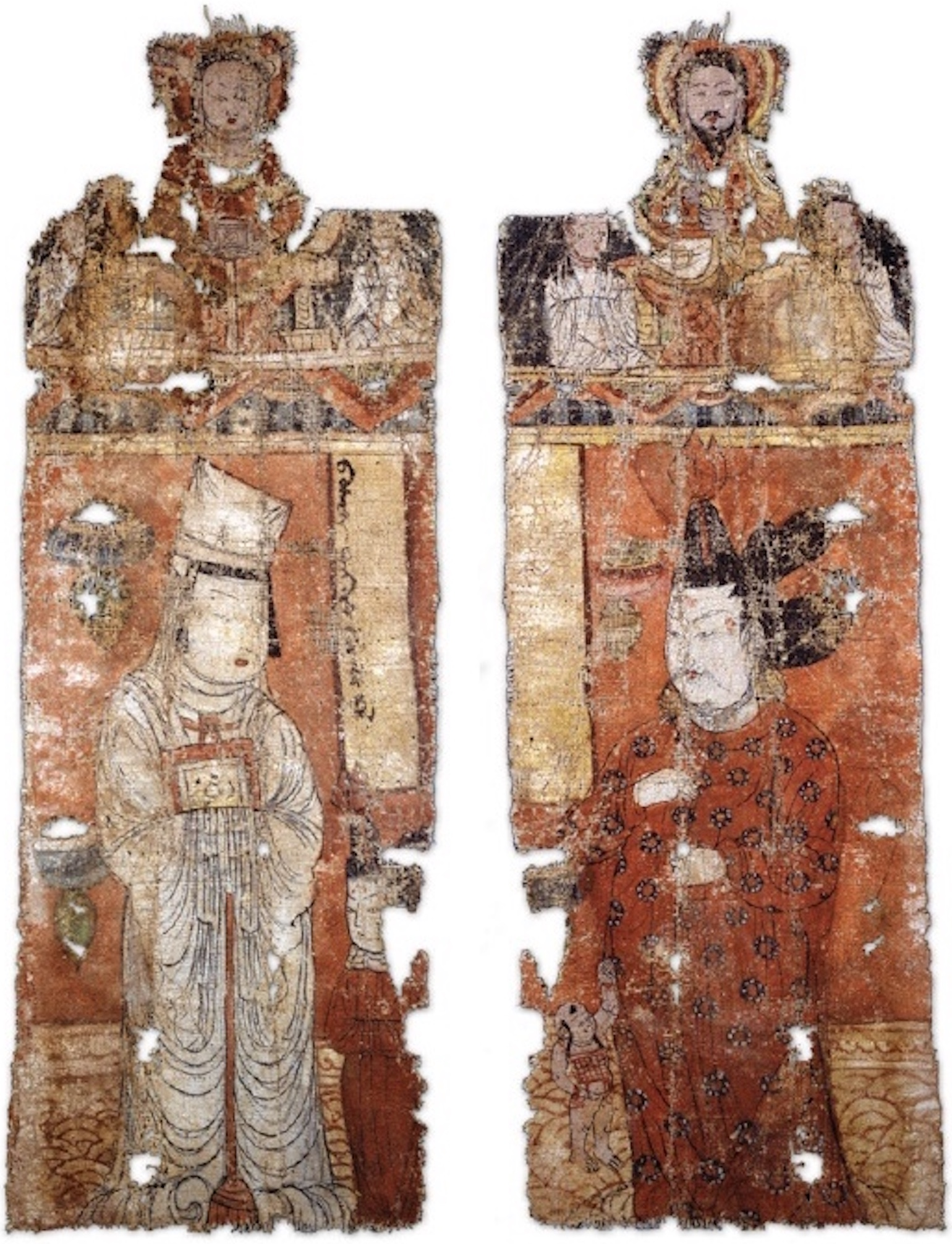 Double-sided banner (MIK III 6286) from a Manichaean temple at Qocho.